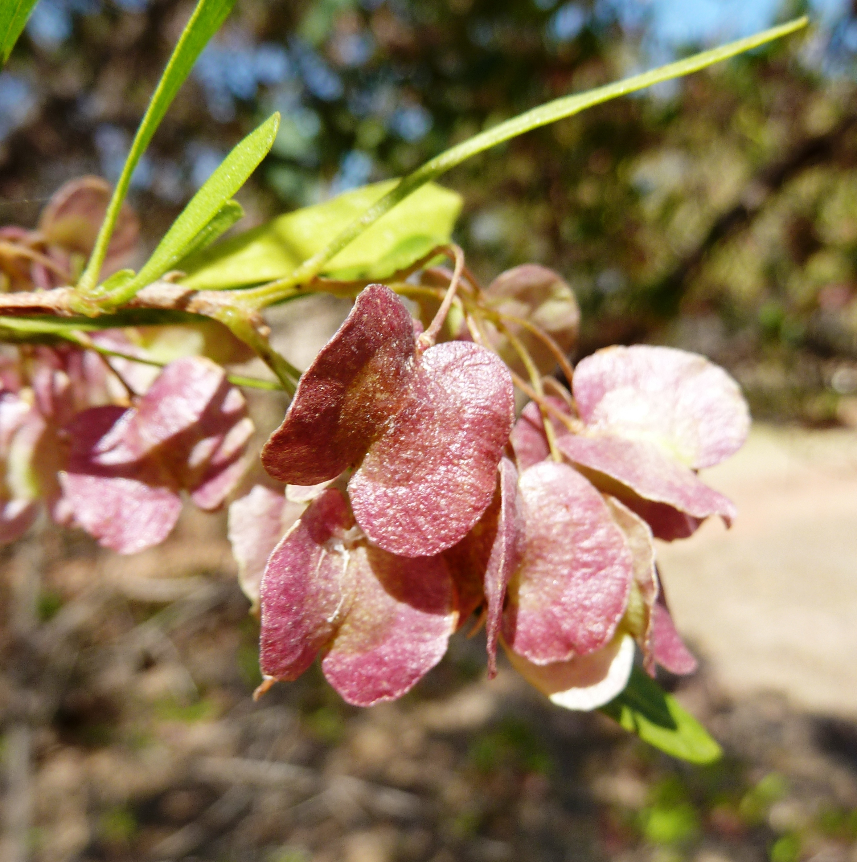 Fruit of a Sand olive, Waterberg, South Africa